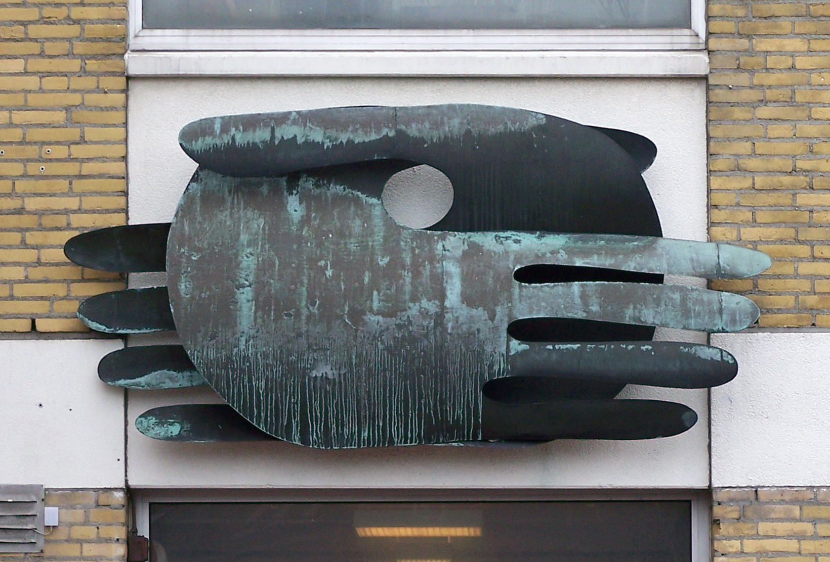 Sculpture "Handen" by Chris Fokma in 1970. Placed against the wall of the building at the Nieuweweg in Leeuwarden.